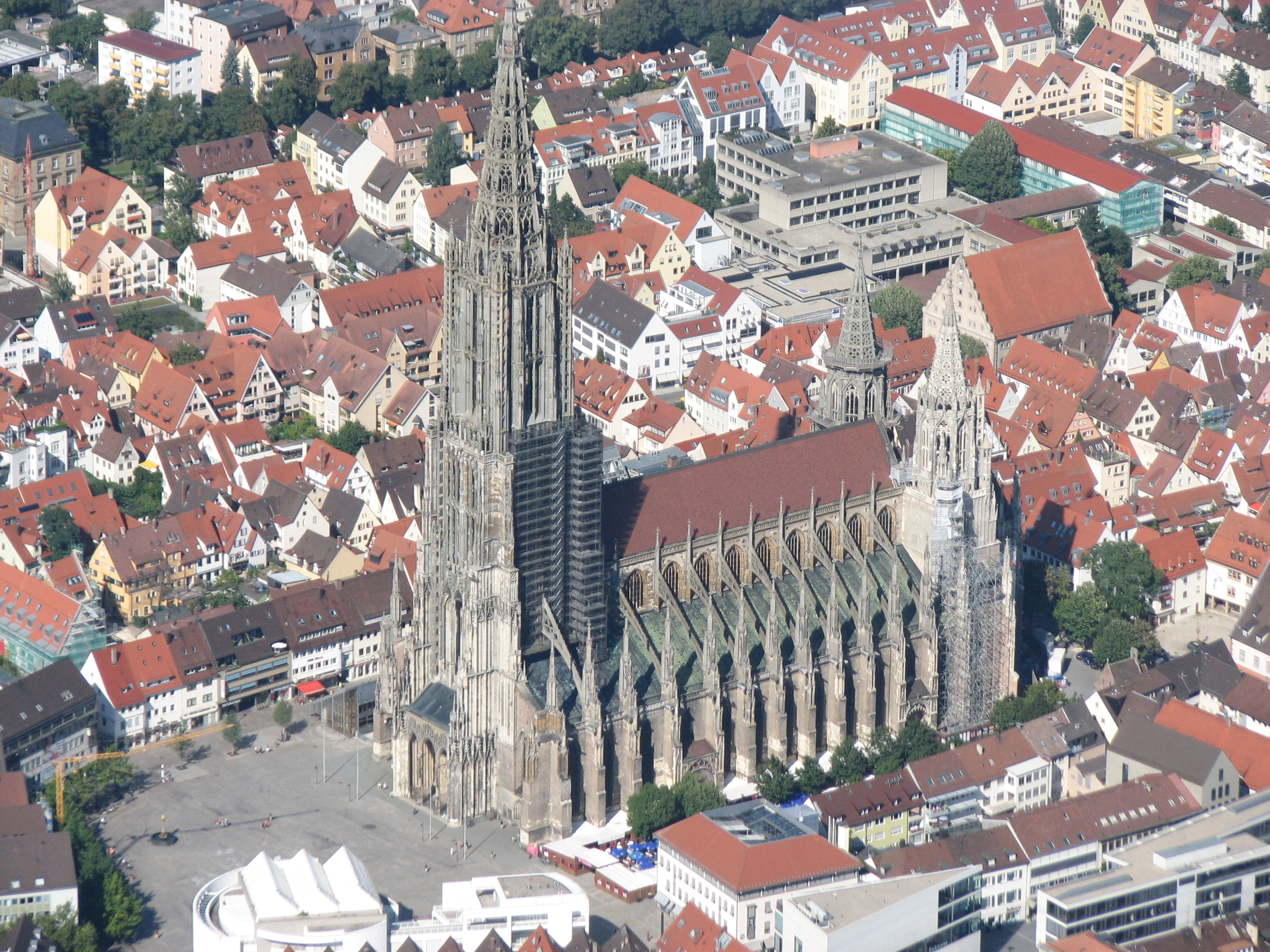 Ulm Minster